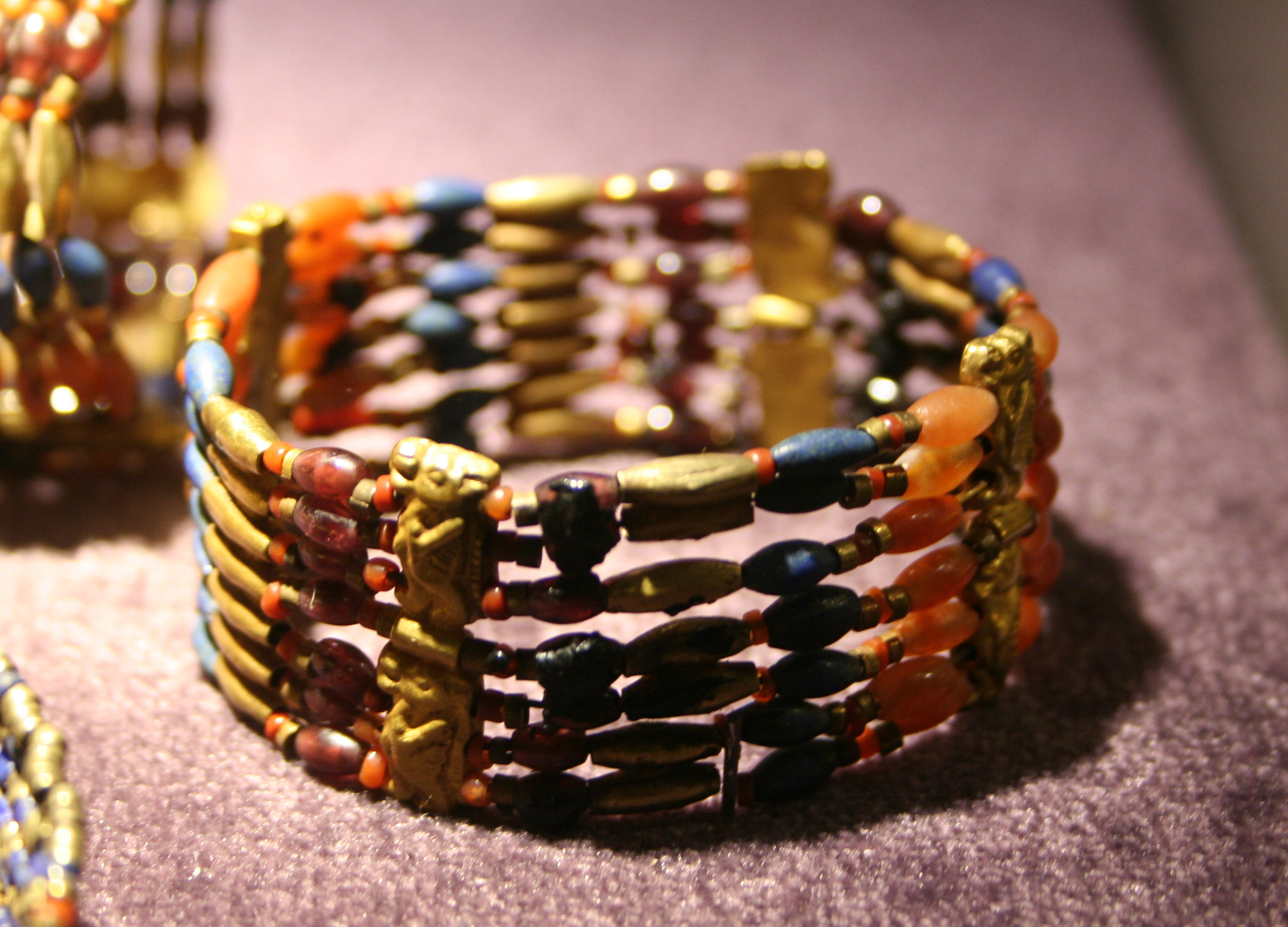 Armlet, from Thebes. 18th dynasty of Egypt. D ~6 cm. IN 5246b. Roemer- und Pelizaeus-Museum, Hildesheim